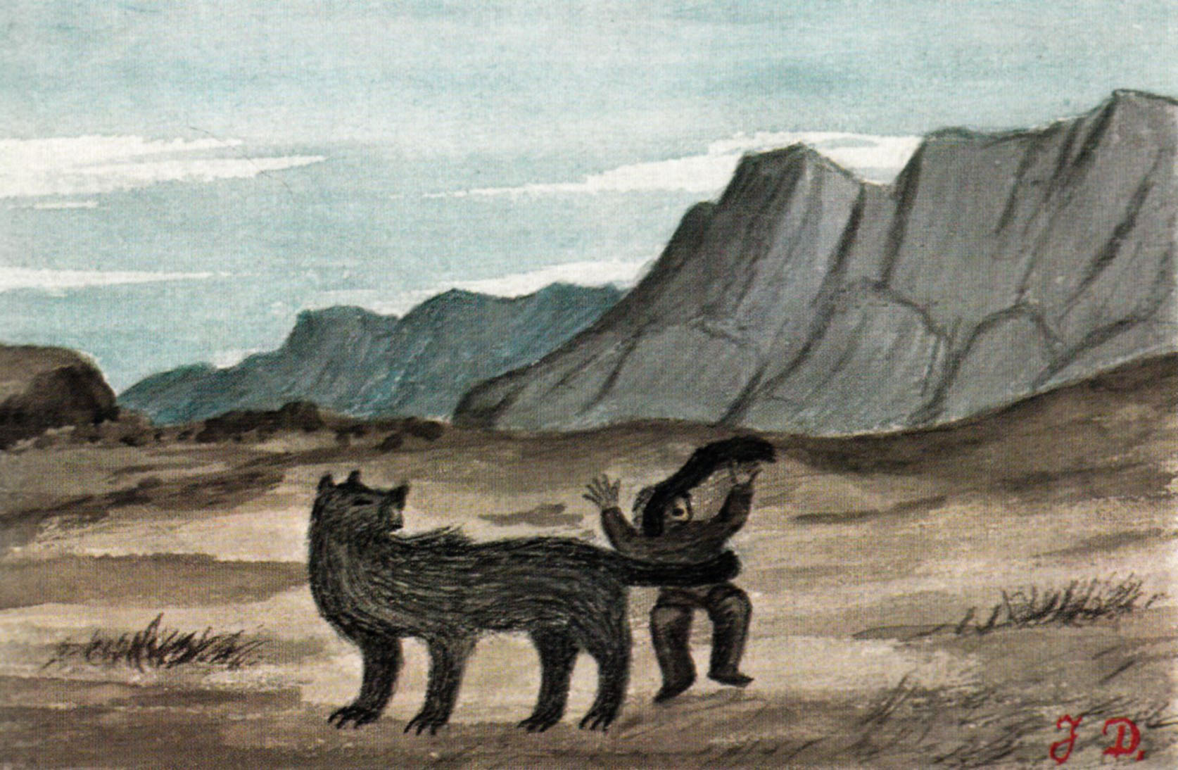 Jakob Danielsen - 03 Kaassassuk and master of power I